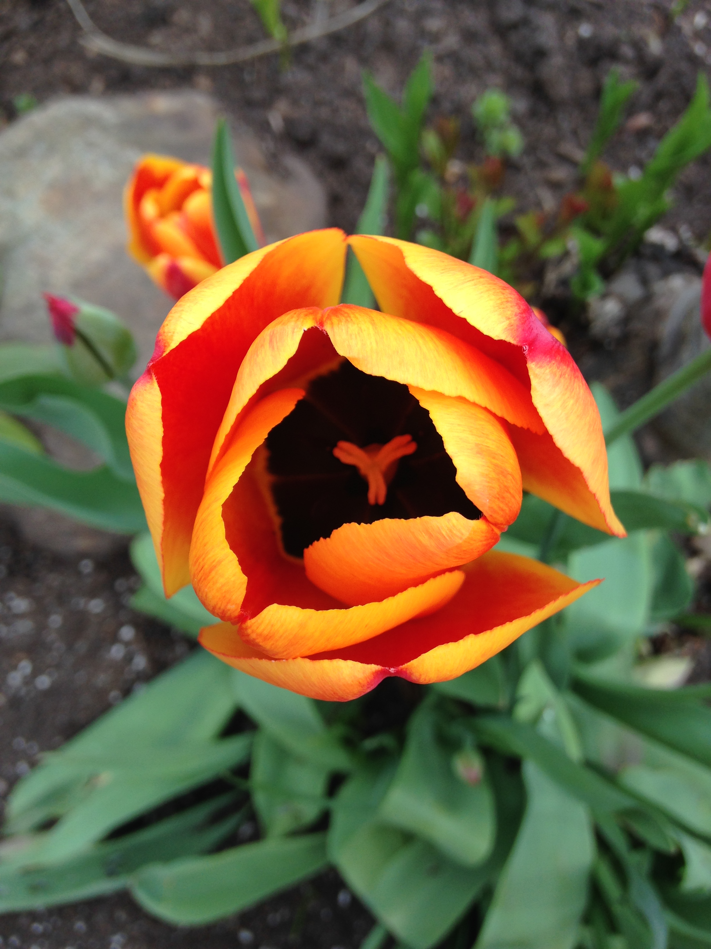 A Tulip